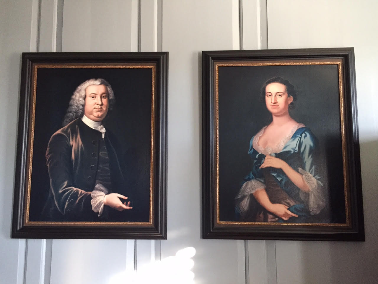 Portrait of Peyton Randolph and Betty Randolph, contributed from the Williamsburg Ghost Tour